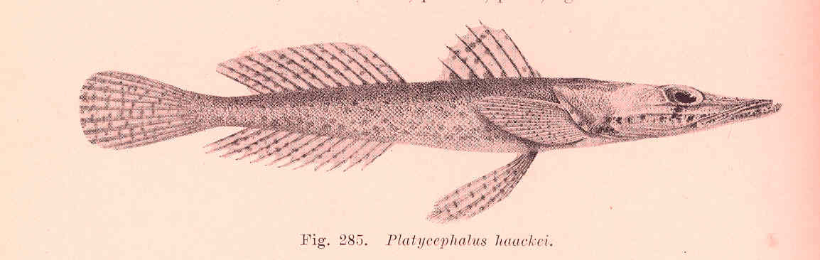 Platycephalus haackei Subject: Platycephalus, Platycephalidae Tag: Fish